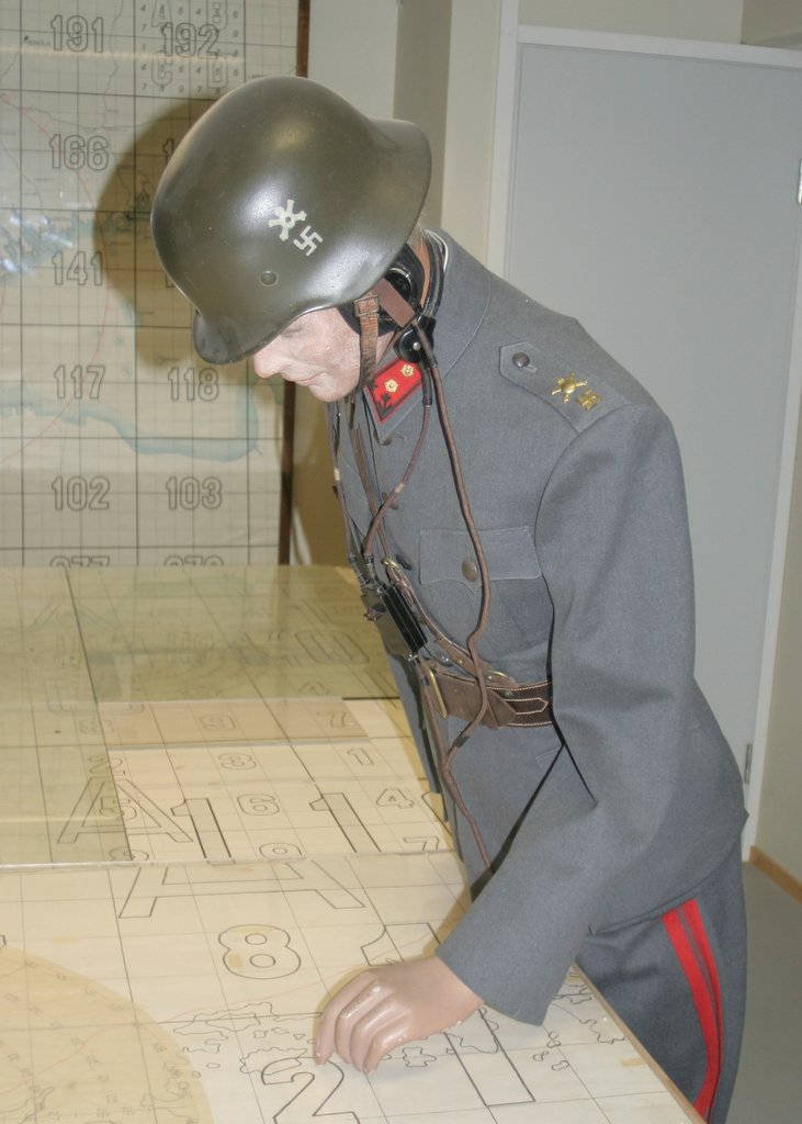 A Finnish lieutenant of the field artillery troops during the second world war in the anti-aircraft museum of Finland in Hyrylä, Tuusula. The exhibition is related to the air defence of Helsinki, the capital, during the second world war, especially in February of 1944.